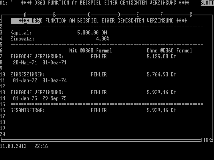 Lotus Symphony 2.0 in German